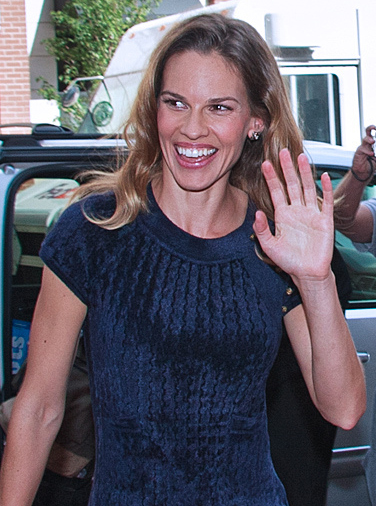 Hilary Swank at the 2010 Toronto International Film Festival.